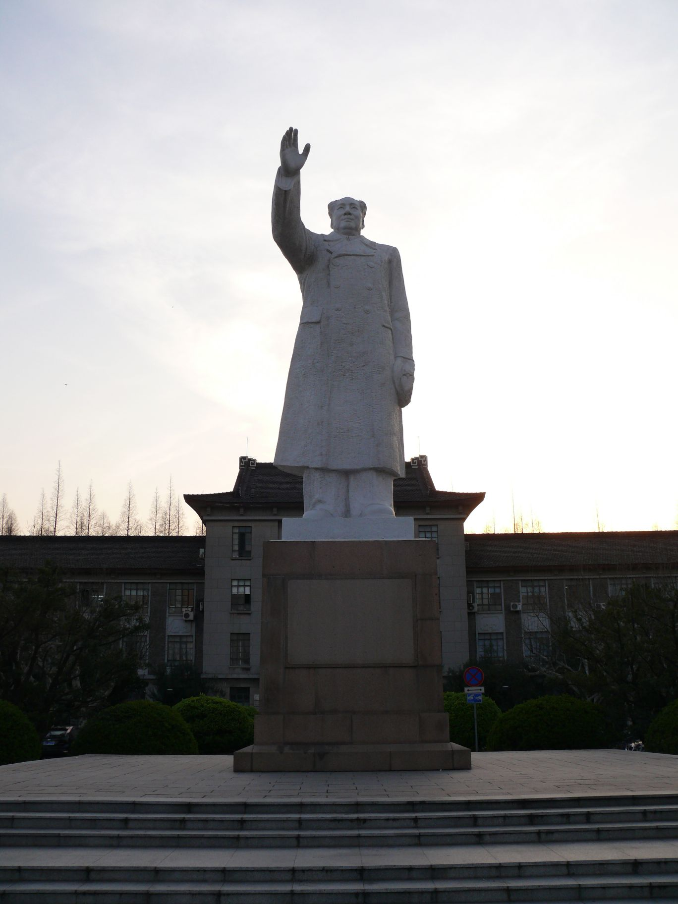 Putuo campus of East China Normal University (Shanghai, China)